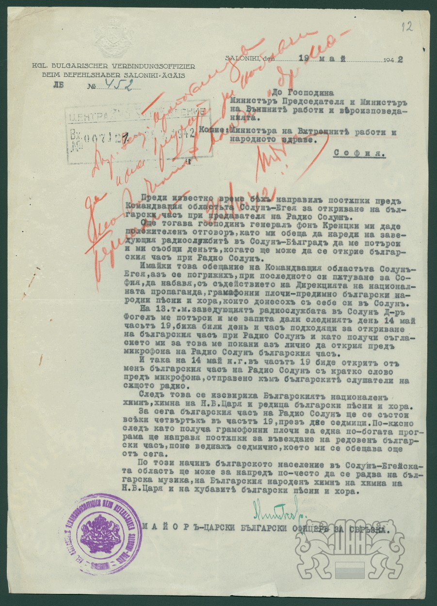 Report byLyubomir Mitkov 19 May 1942